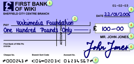 Cheque sample for a fictional bank in the United Kingdom. May also apply for other countries, originally created by Sergio Ortega based on real cheque standards. Original file uploaded to Wikipedia as File:BritishCheque.png. This version is modified to with annotations to describe cheque content. drawee, the financial institution where the cheque can be presented for payment payee date of issue amount of currency drawer, the person or entity making the cheque signature of drawer Machine readable routing information